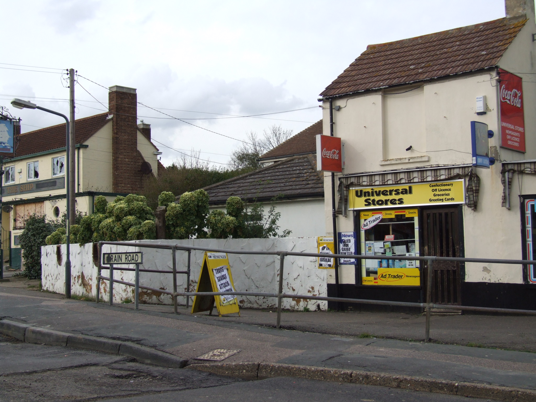 Stoke, Kent is a village on the Hoo Peninsula. - OpenStreetMap (Info) Lower Stoke